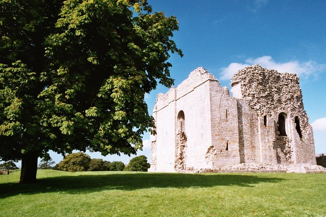 Bowes Castle